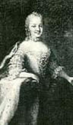 Portrait of Karoline Franziska Dorothea von Parkstein (1762-1816), Princess of Isenburg